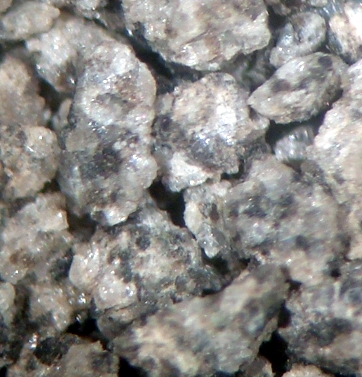 Bluesky Formation sandstone - microscope photo